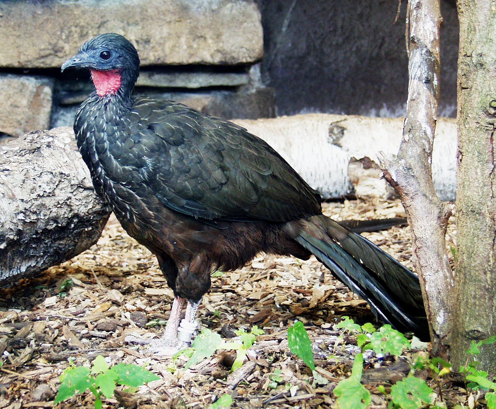 Spix's Guan (Penelope jacquacu) at Zoo Duisburg, Germany